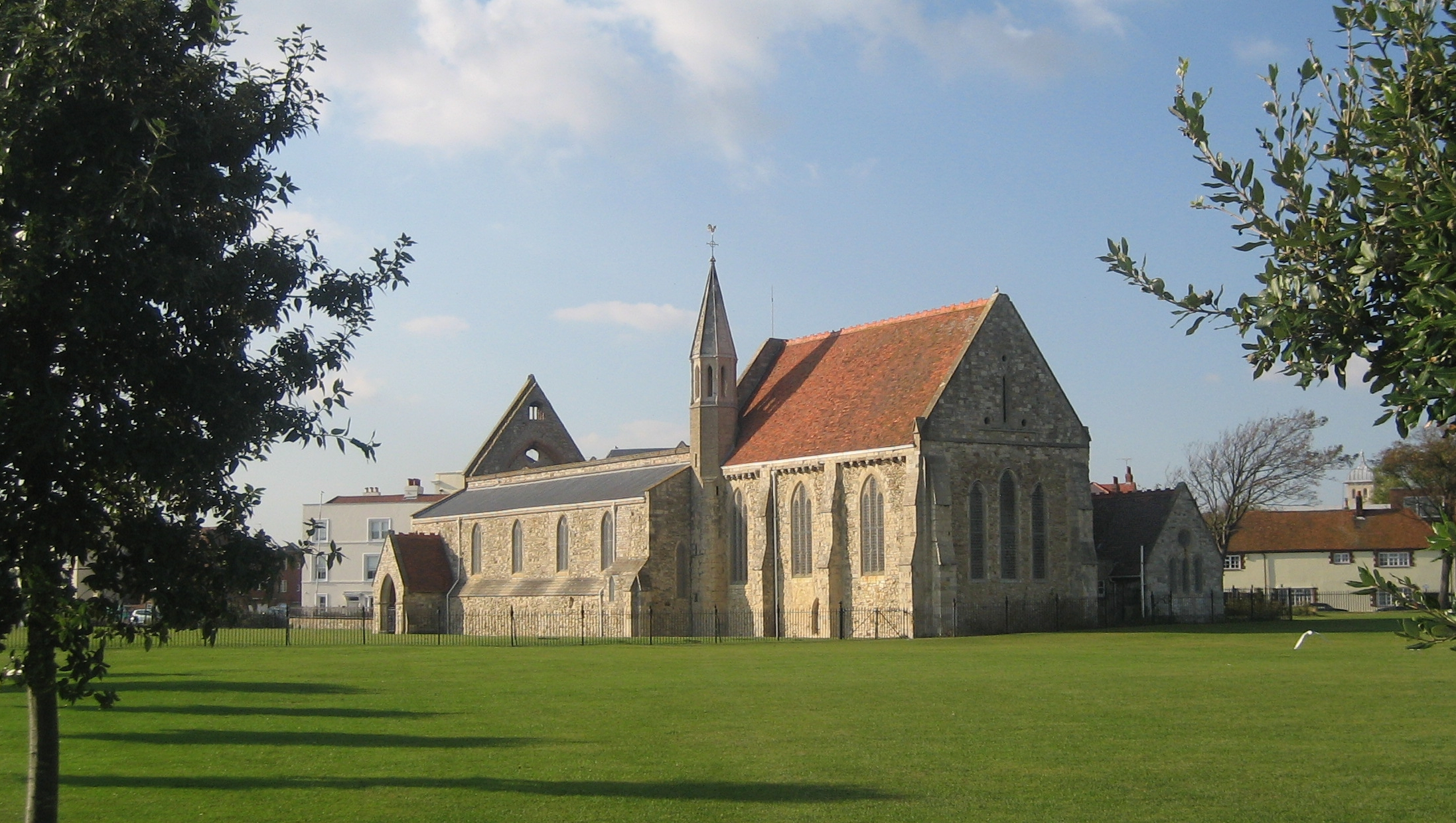 Domus Dei taken by self on Saturday 2007-10-06.